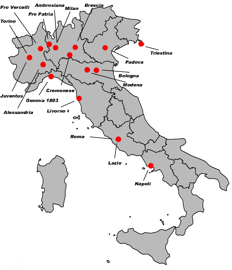 Author: User:CapPixel Source: Blank Italy map on Wikimedia Commons Tag: Serie A 1929-30 team locations